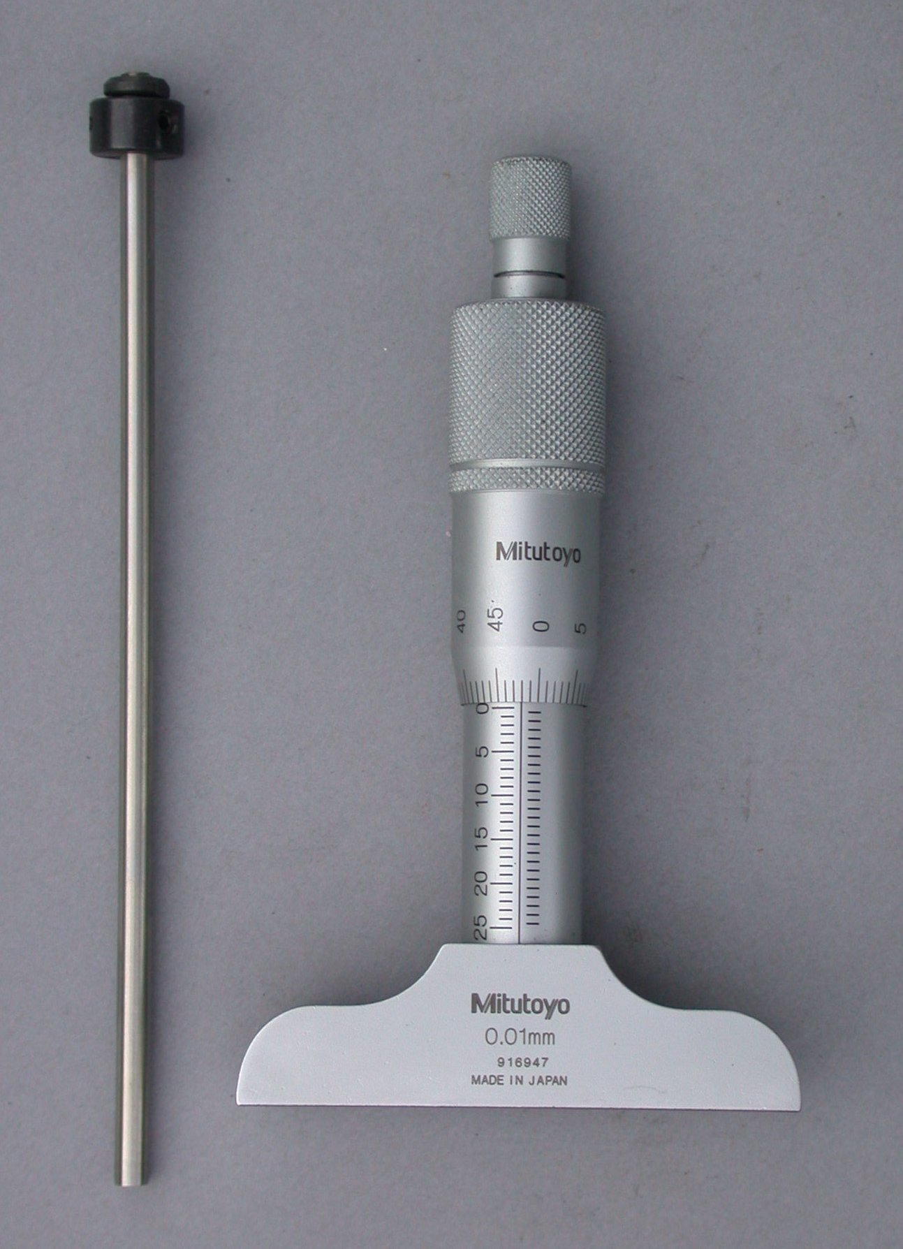 Depth micrometer with an extra probe